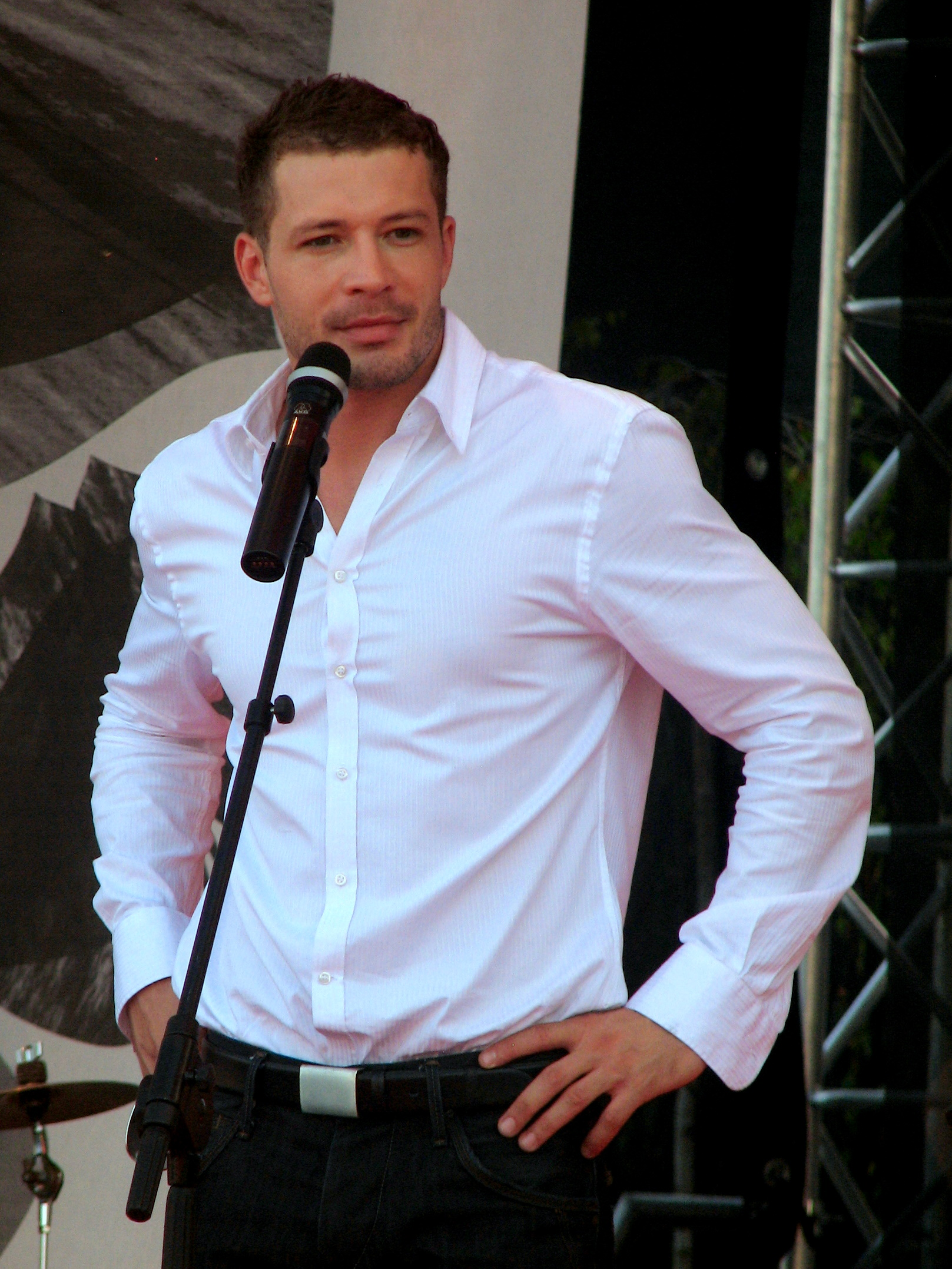 Andrzej Młynarczyk during IV Meeting Of Fans of the TV Series "M jak miłość" in Gdynia 2010. "M jak Miłość" in exact translations: "L as Love".